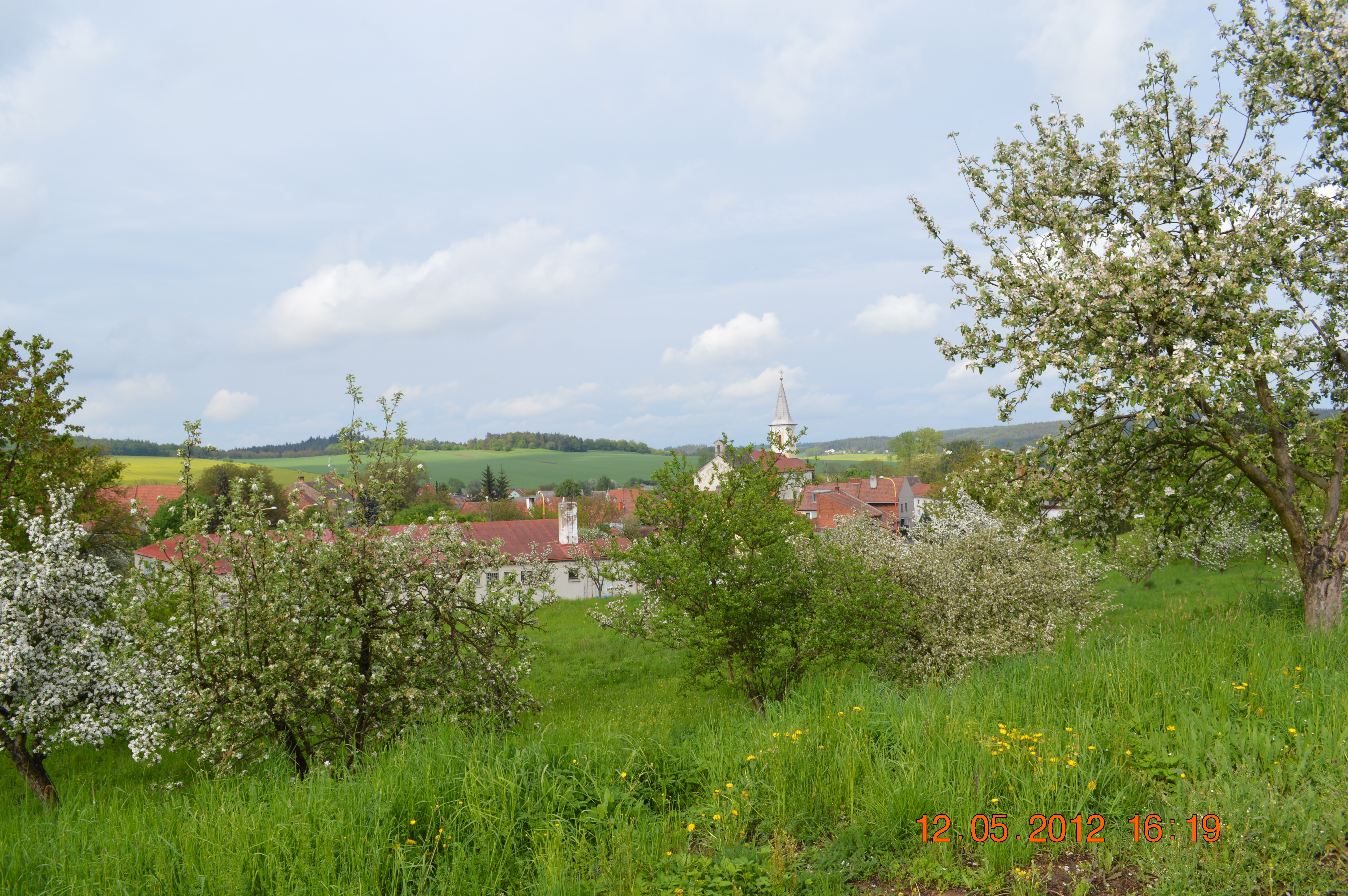 View of Krumsín in Prostějov discrict(CZ).